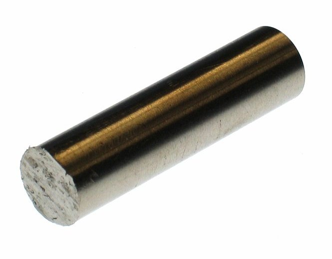 Zirconium rod. Image taken by User:Dschwen on January 12th 2006.